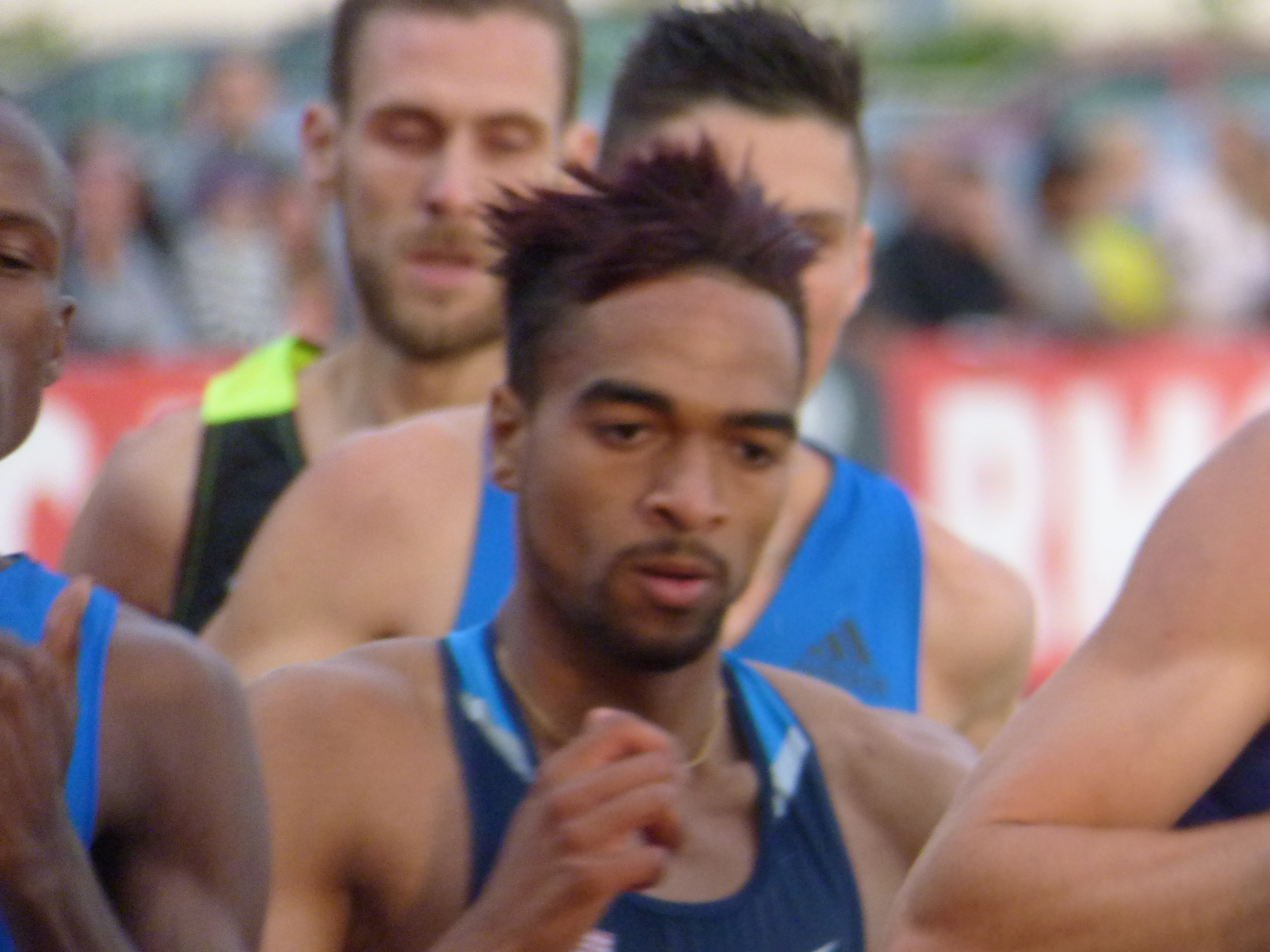 2017 Meeting Stanislas